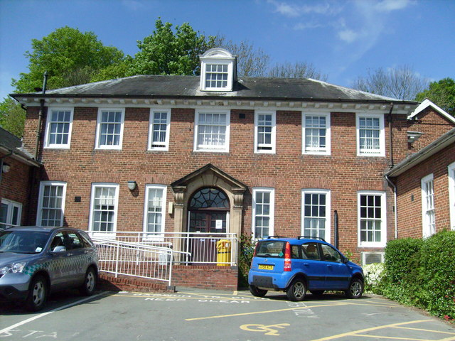 County Infirmary, Newtown, Powys The old part of Newtown Infirmary, Newtown, Powys